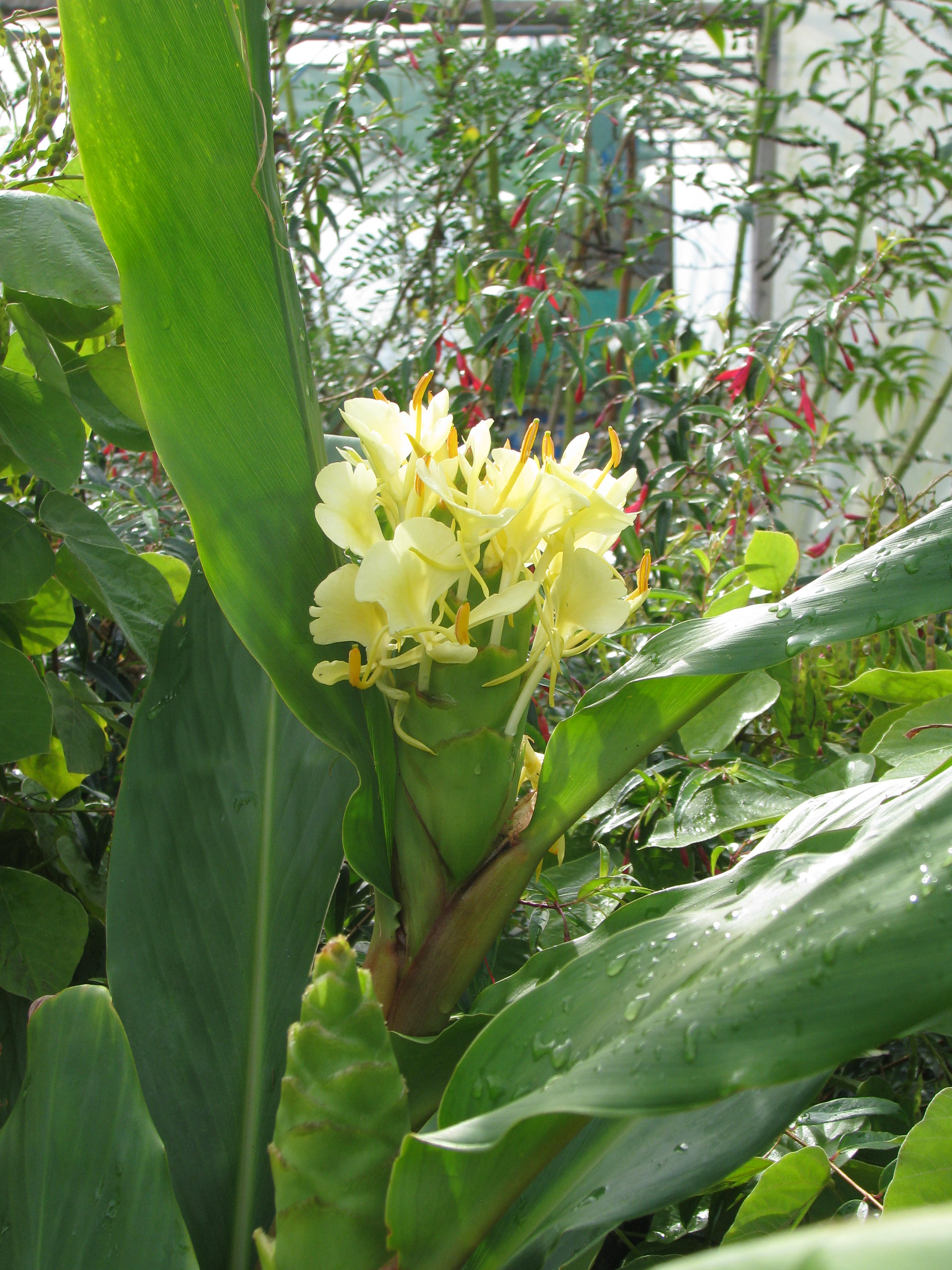 A Vietnamese species, but hardy apparently